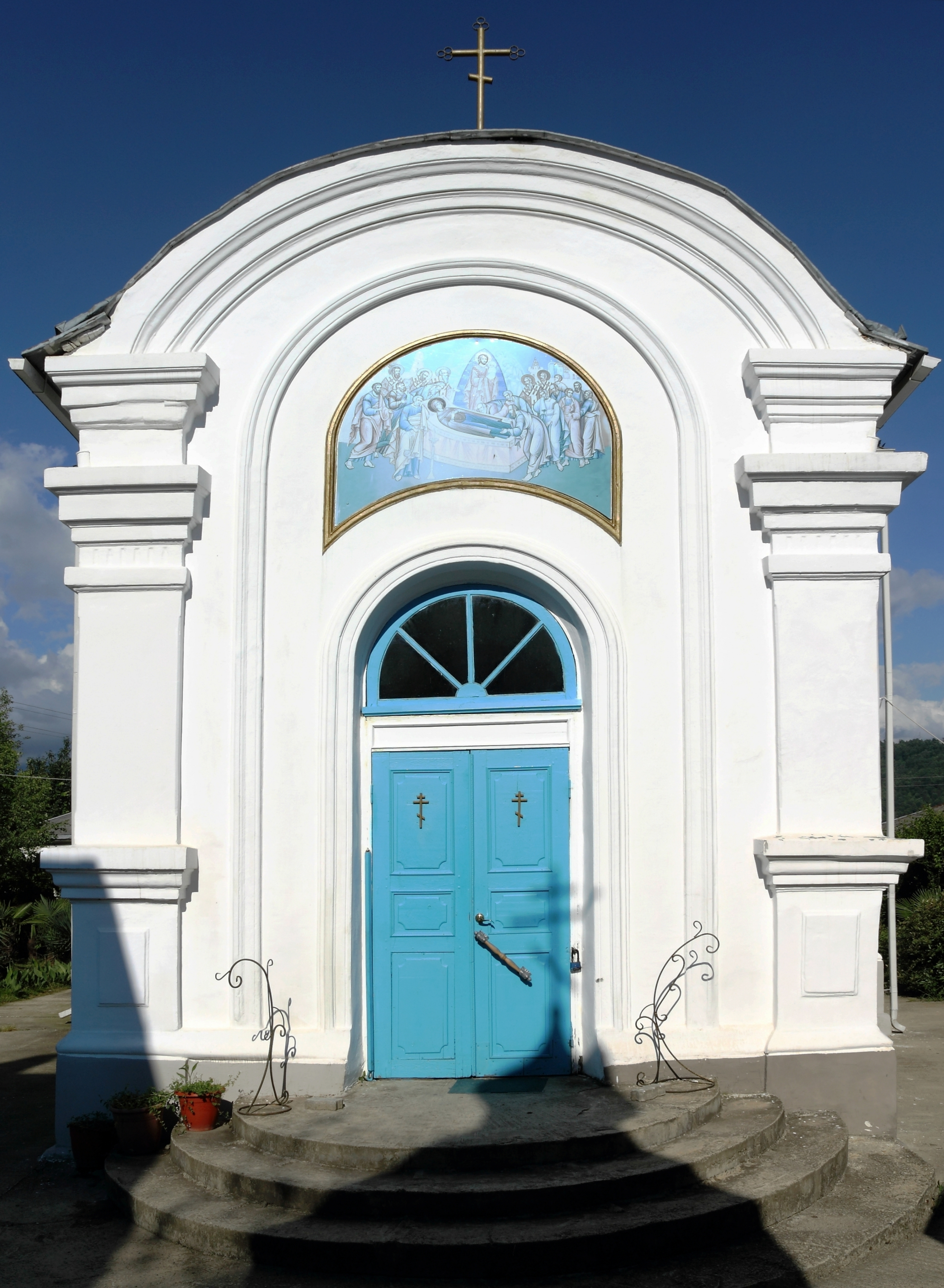 Church of the Dormition of the Theotokos in Adlersky district of Sochi. Krasnodarski krai, Russia.